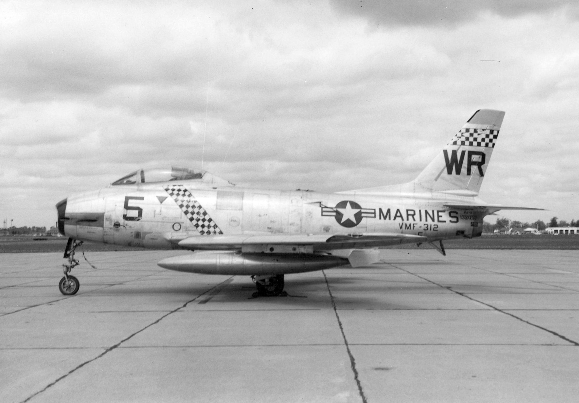 A U.S. Marine Corps North American FJ-2 Fury (BuNo 132057) from Marine Fighter Squadron VMF-312 Checkerboards. The FJ-2 132057 is today preserved at the USS Hornet Museum at Alameda, California (USA).